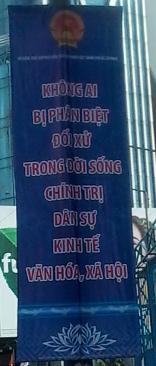 Human right propaganda in Vietnam